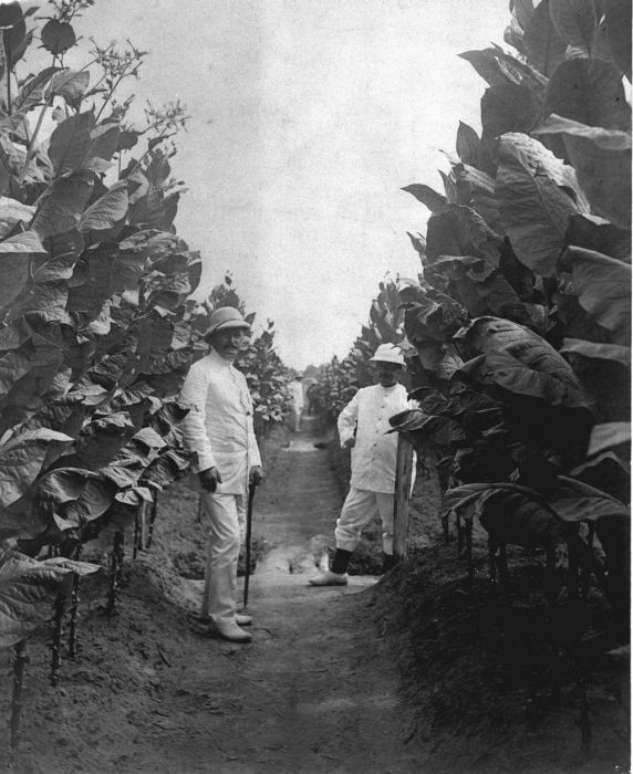 Administrator Sijthof with J.H. Blumer on the Deli Company's Boeloe Tjina tobacco plantation